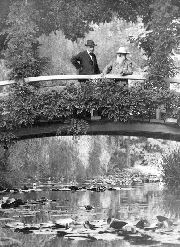 An image of Claude Monet in his garden in Giverny with an unidentified visitor. From The New York Times photo archive, dated only 1922, author not given (the image presumably in a Times December 24, 1922 profile on the painter).